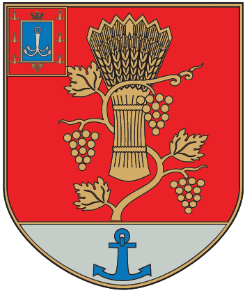 Coat of Arms of Bilgorod-Dnistrovskyj Raion